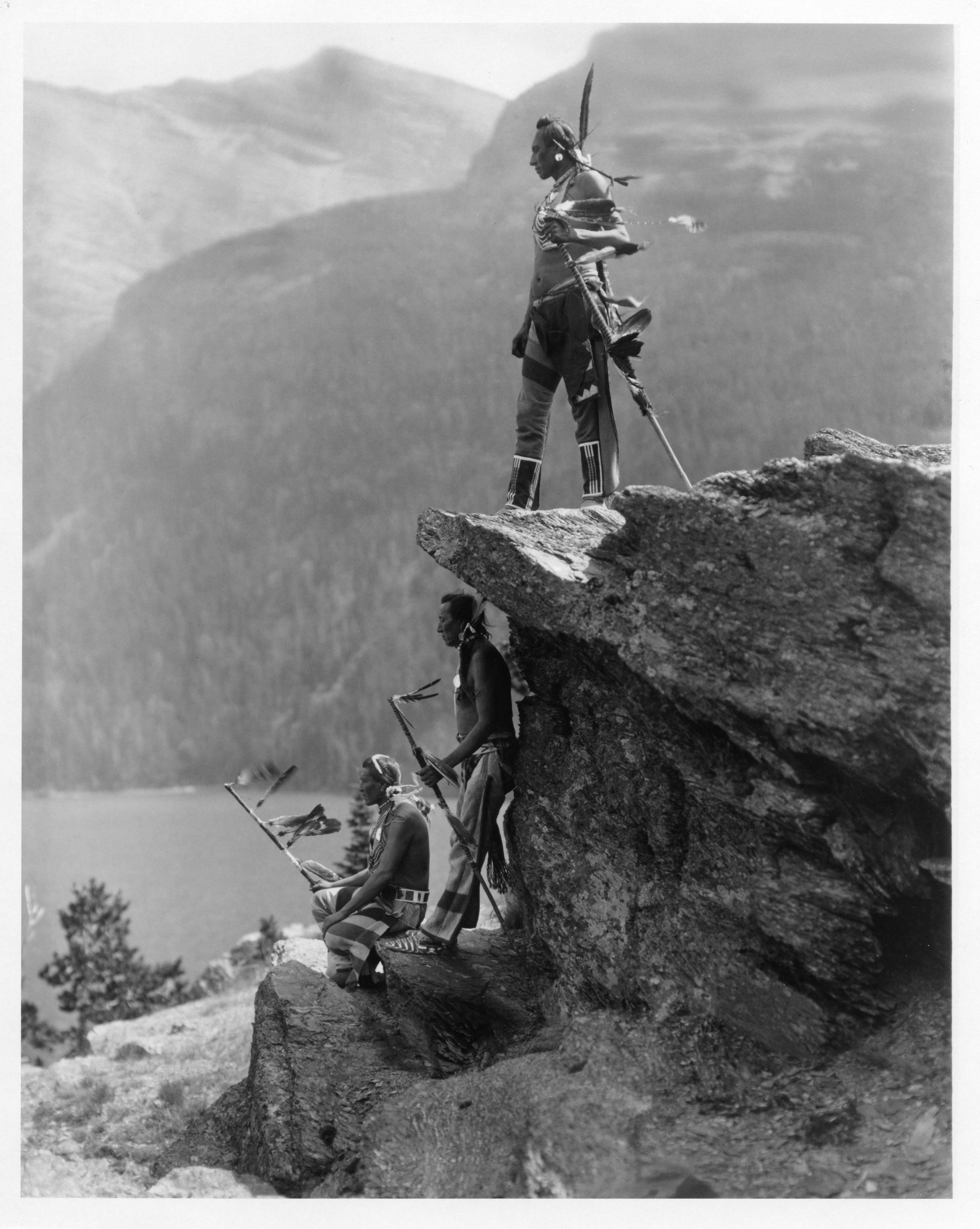 Plains